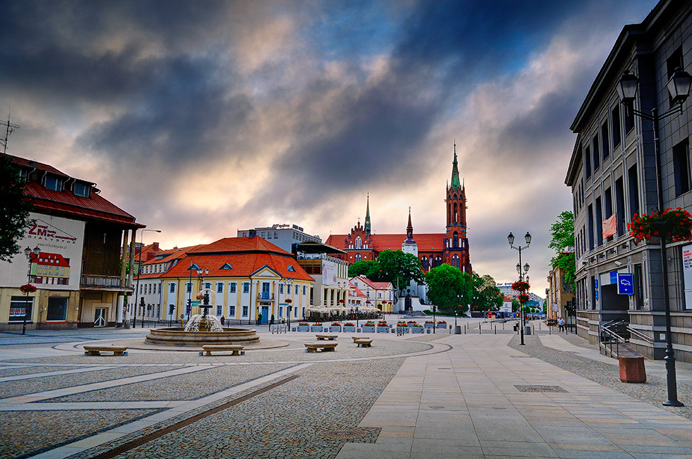 Białystok main square at dawn